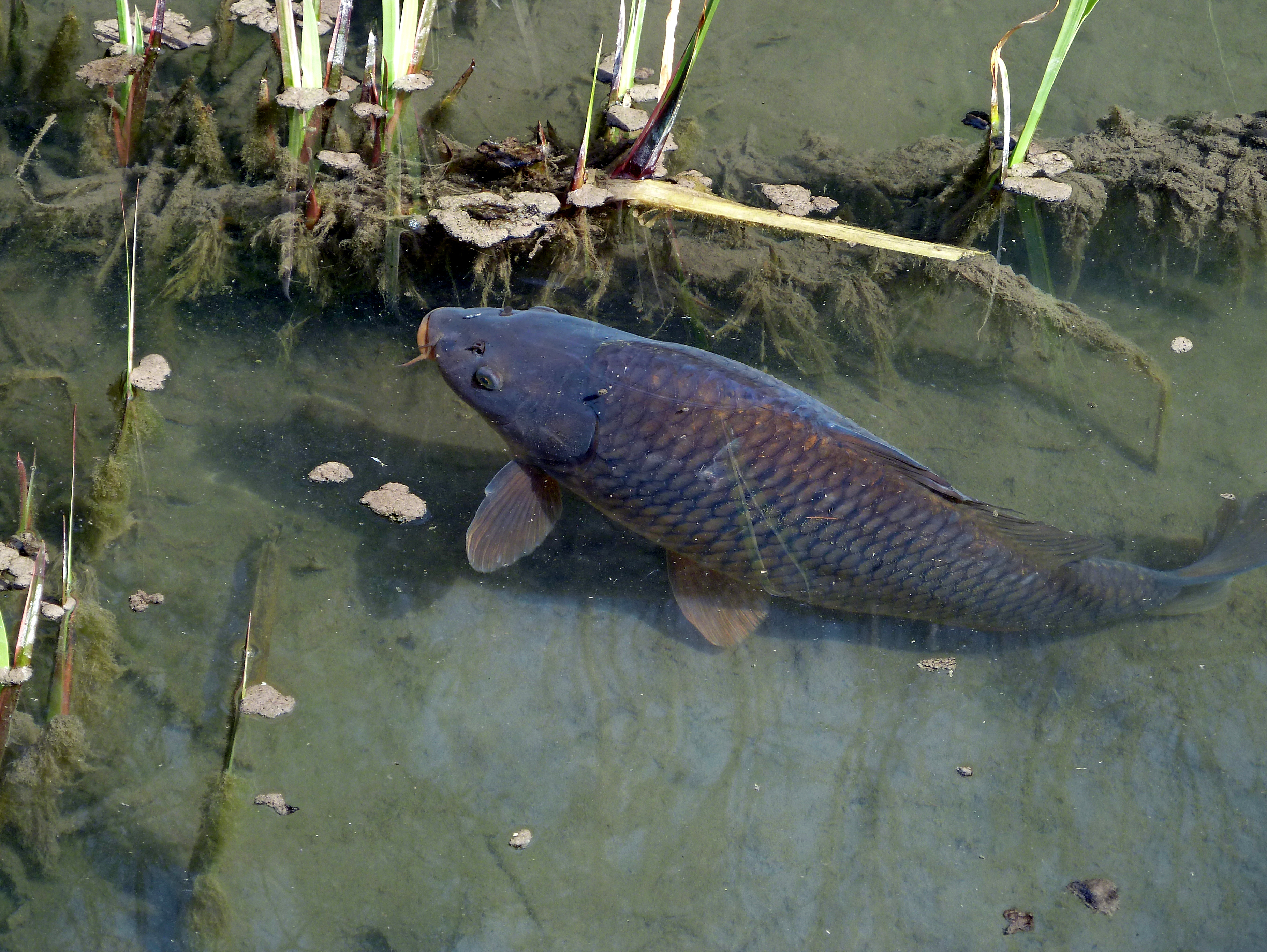 Carp in a pond at the Salzburg Zoo. Salzburg (state), Austria.